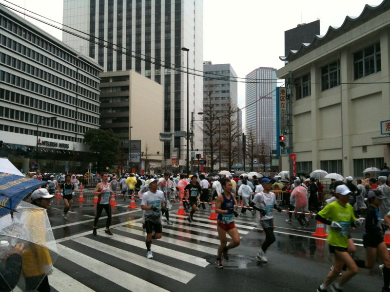 2010 Tokyo Marathon, Mita Station